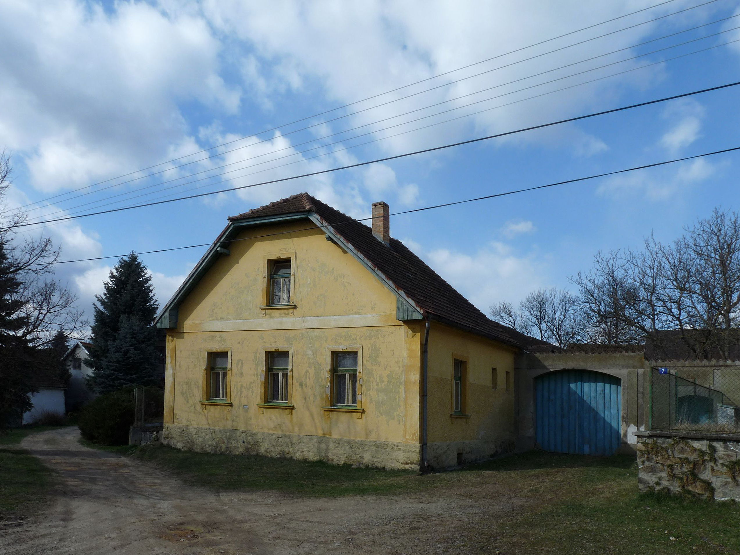 House No 7 in the village of Pohoří, Jindřichův Hradec District, Czech Republic.